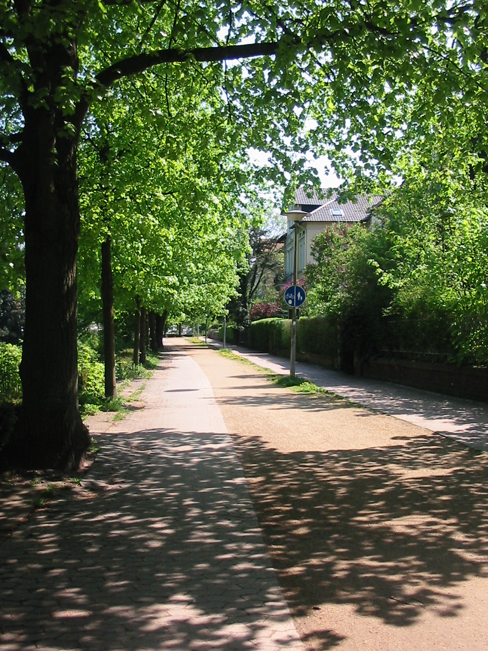 Footpath in town of Herford, District of Herford, North Rhine-Westphalia, Germany.